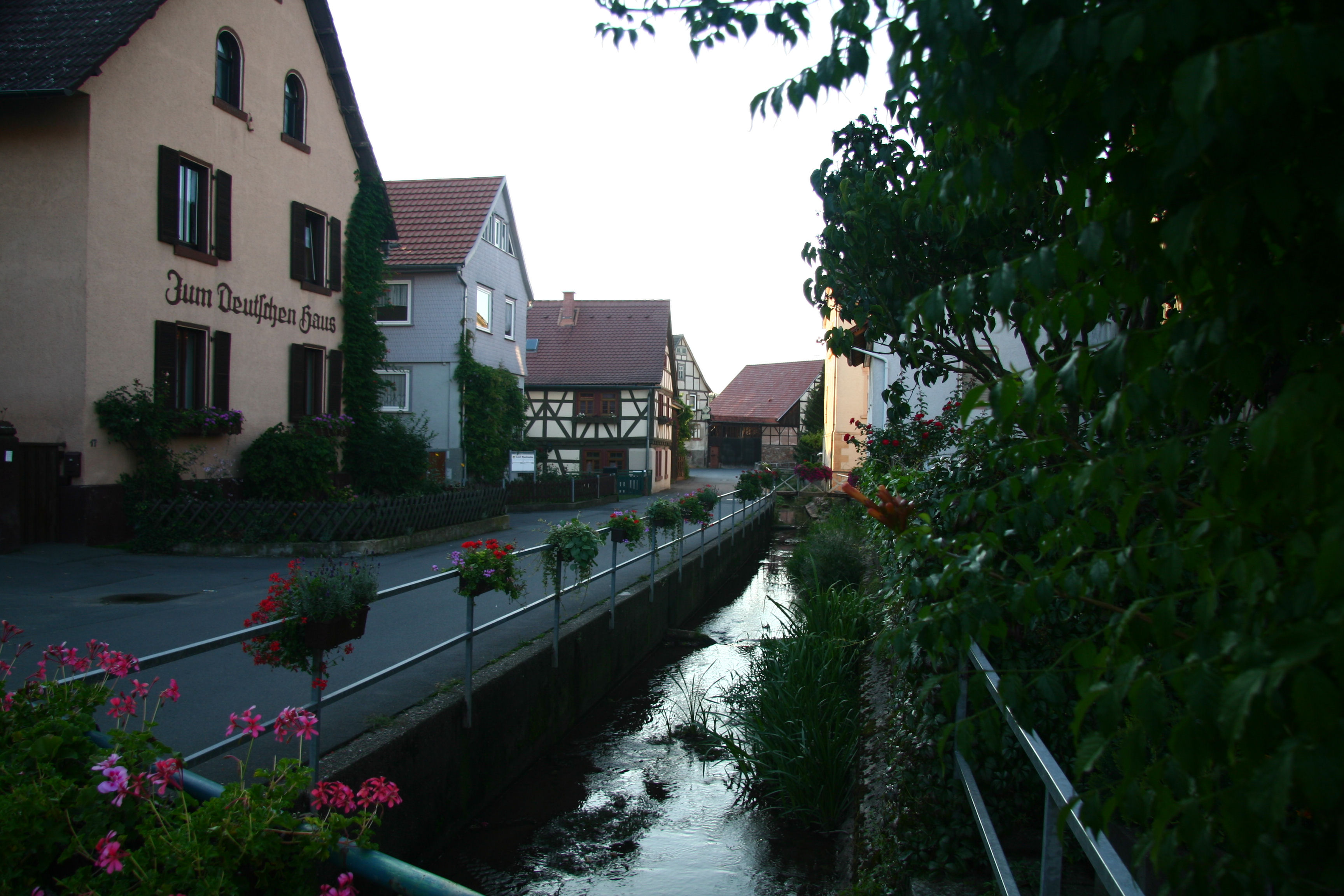 Bachgasse in Nieder-Kainsbach